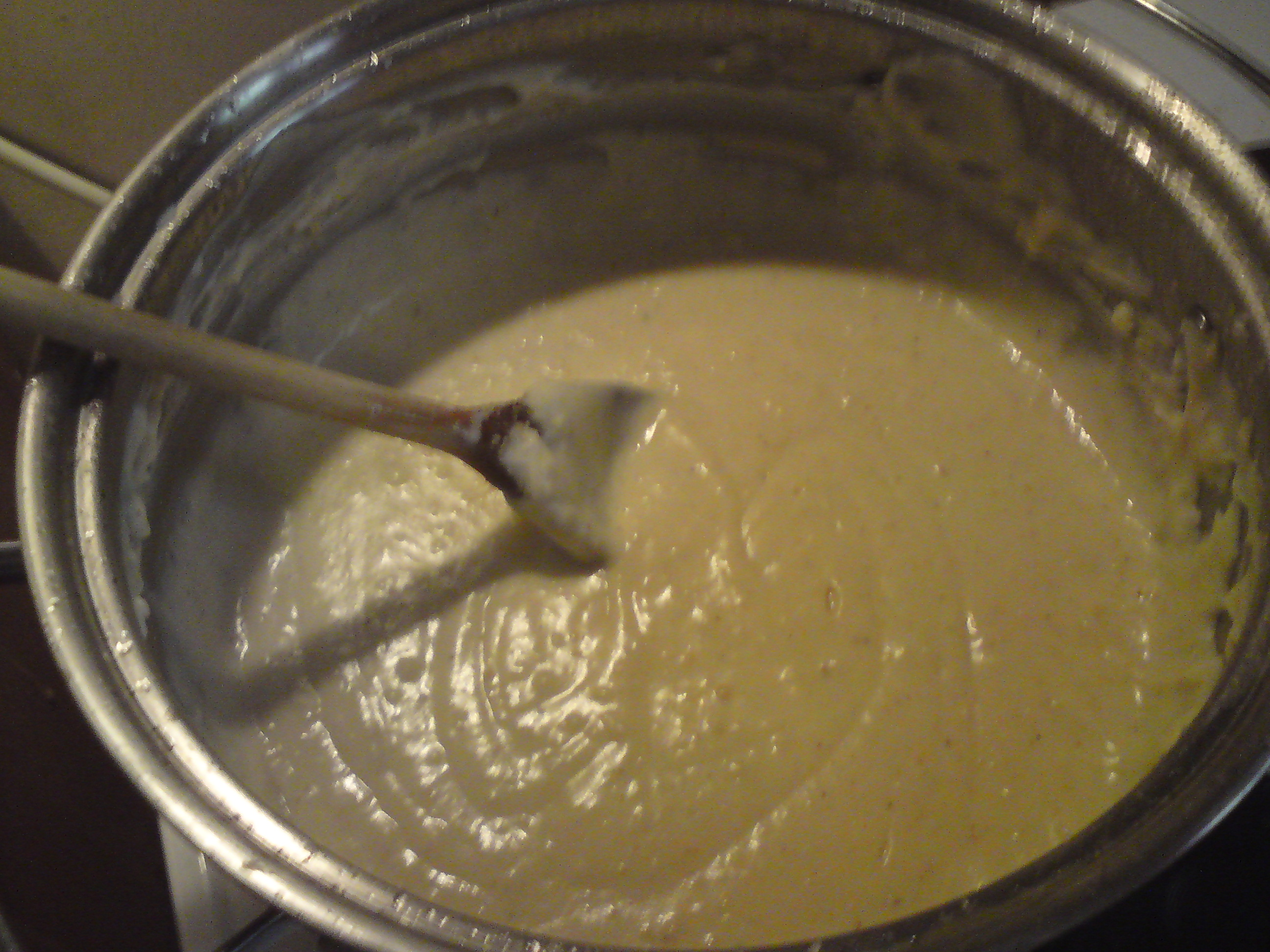 Bechamel sauce is prepared in a saucepan and left to cool slightly before adding beaten eggs, grated cheese and spices.